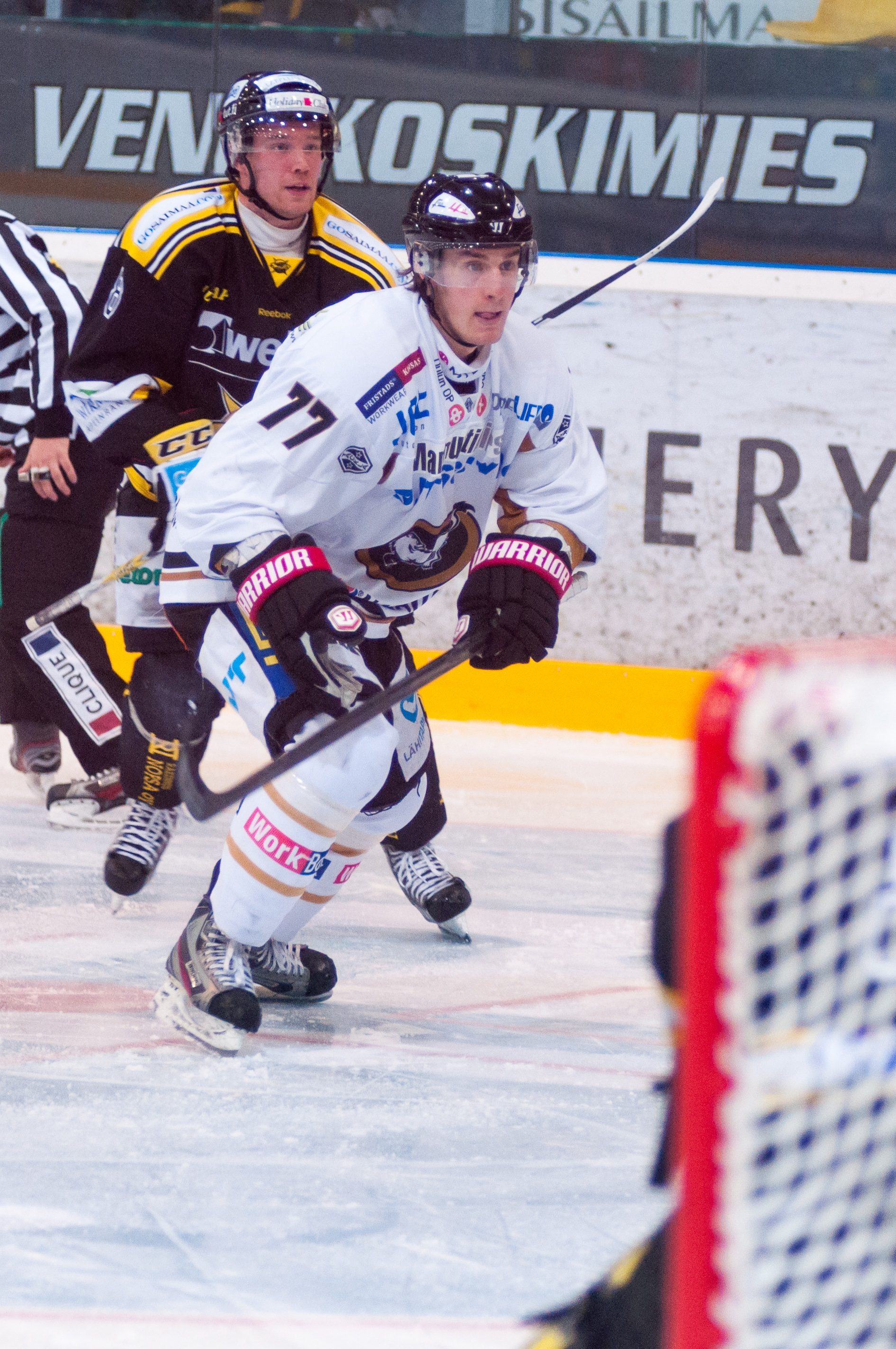 Kyle Turris playing for Oulun Kärpät against SaiPa Lappeenranta in Lappeenranta, Finland during the 2012 NHL lockout.